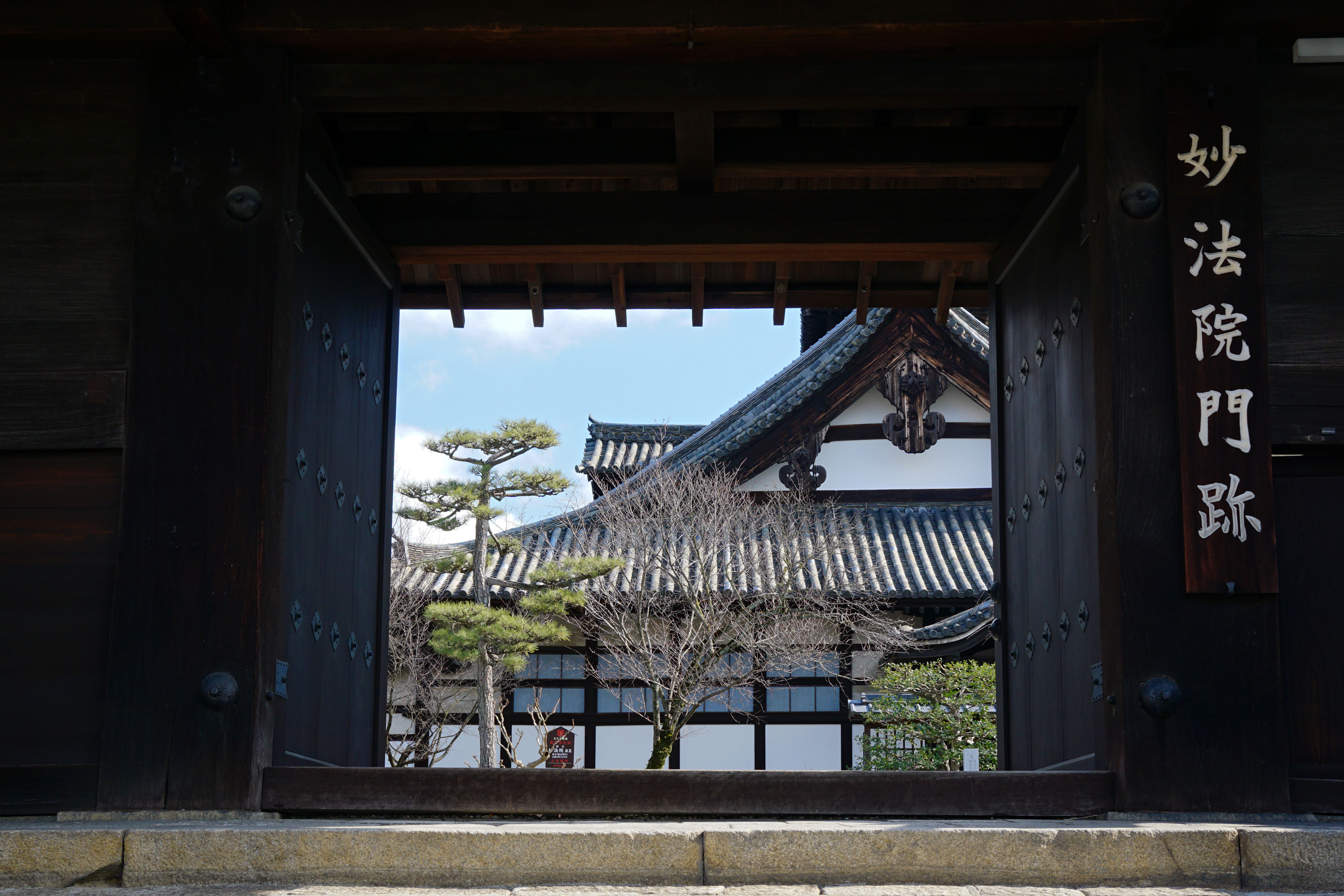 Myohoin in Kyoto, Kyoto prefecture, Japan